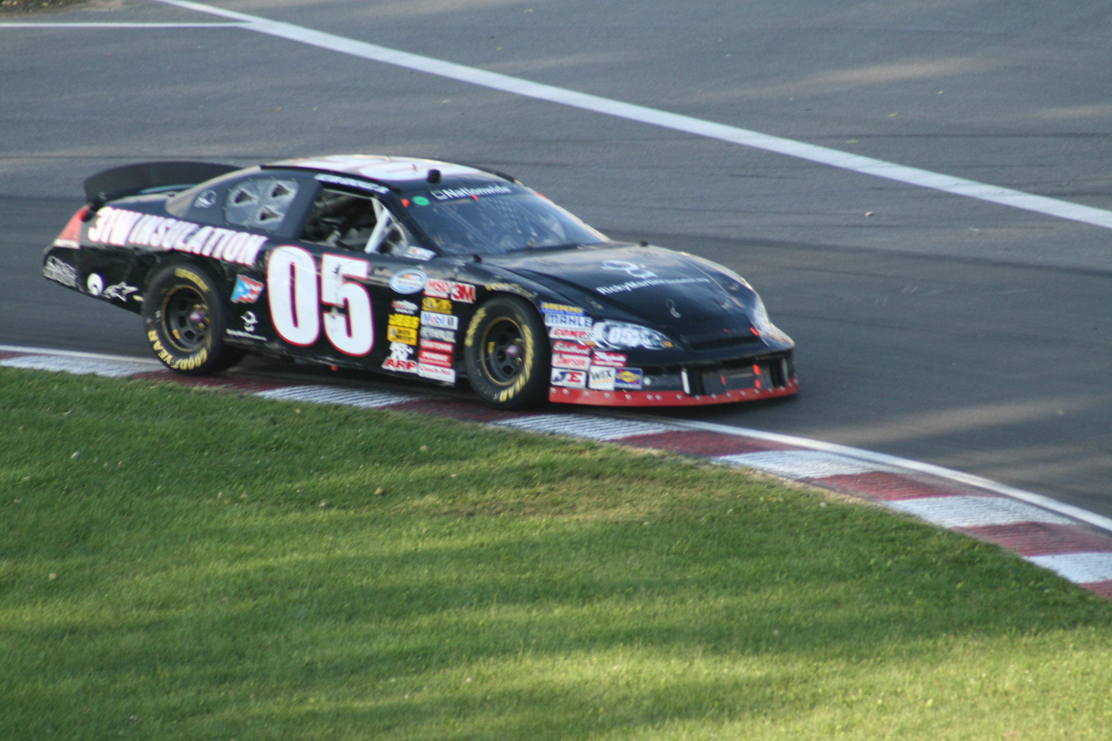 Victor Gonzalez Jr. in the qualification for the 2010 NAPA Auto Parts 200 at the Circuit Gilles Villeneuve in Montreal.